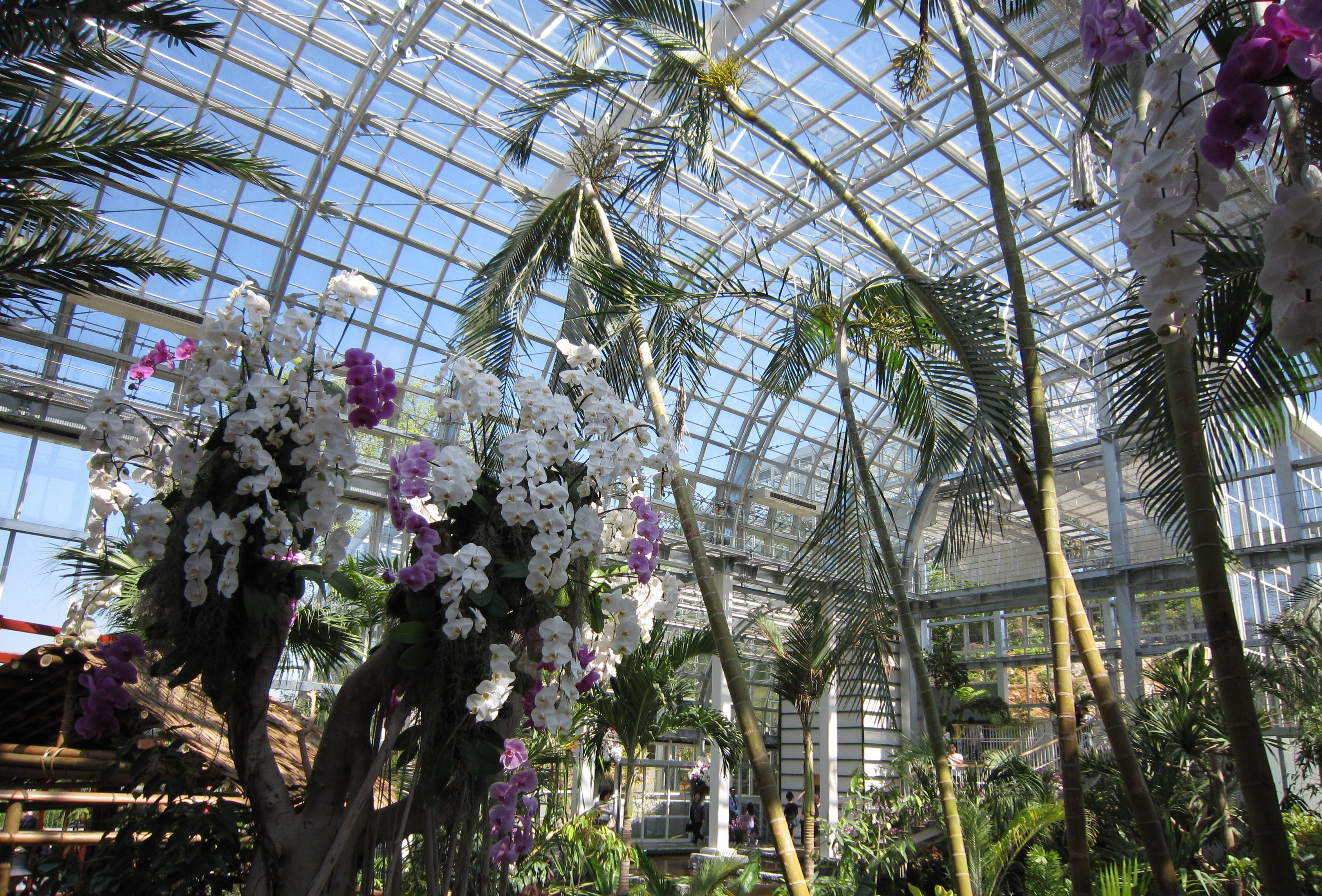 Kochi Prefectural Makino Botanical Garden in Kochi, Kochi prefecture, Japan.